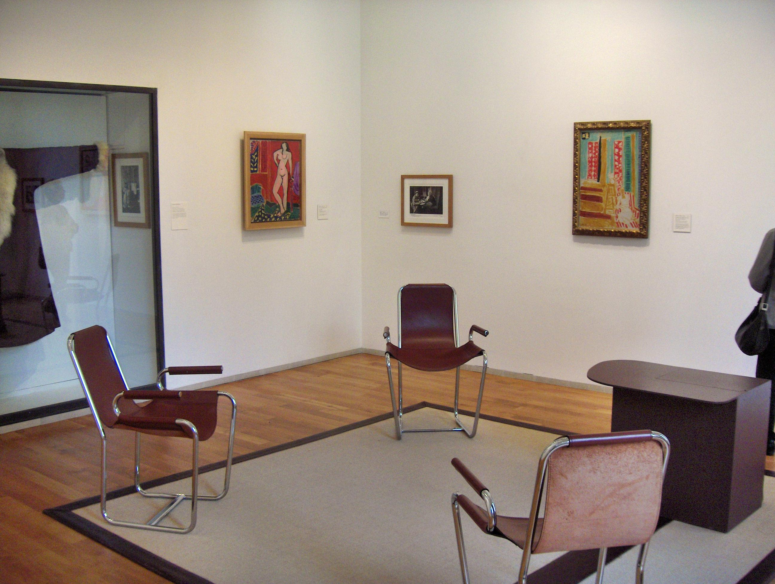 One of the rooms in the Musée Matisse, Le Cateau-Cambrésis, France